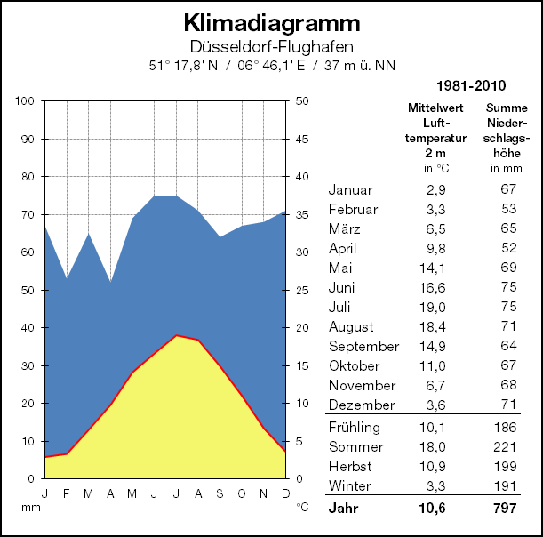 climate diagramm Duesseldorf airport